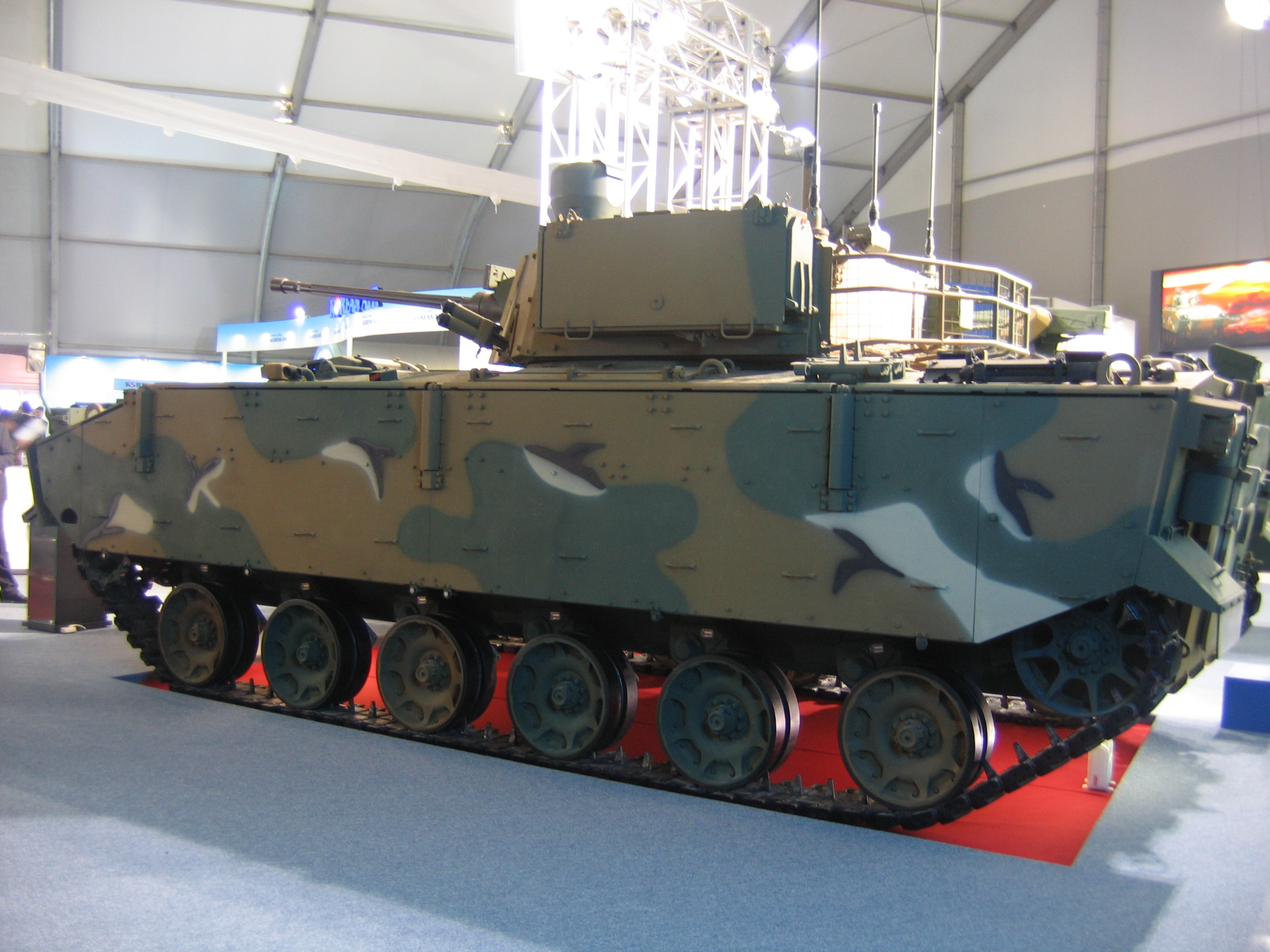 K21 IFV of South Korea which photoed by Rheo1905 in 2007 Seoul Air Show